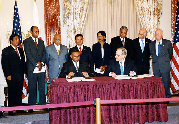 Secretary Rice with Malagasy President Marc Ravalomanana (center, left of Secretary) and Millennium Challenge Corporation Chief Executive Officer Paul Applegarth (seated, right) and Malagasy Minister of Finance Radavidson Andriamparany (seated, left), at signing ceremony for the Millennium Challenge Corporation's Compact with the Republic of Madagascar. Persons (L-R) back row: unidentified unidentified Narisoa Rajaonarivony, Ambassador of Madagascar to the United States Marc Ravalomanana, President of Madagascar Condoleezza Rice, United States Secretary of State James D. McGee, Ambassador of the United States to Madagascar unidentified unidentified front row Radavidson Andriamparany, Minister of Finance of Madagascar Paul Applegarth, Millennium Challenge Corporation CEO